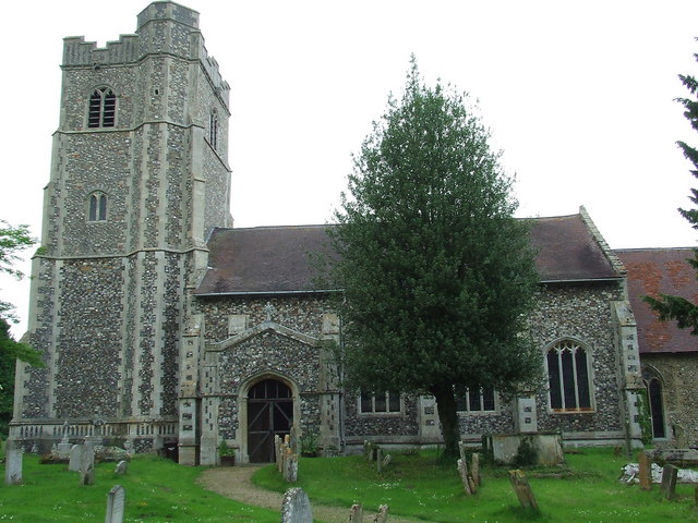 Church of All Saints in Hawstead, Suffolk, England. A Grade I listed medieval church.